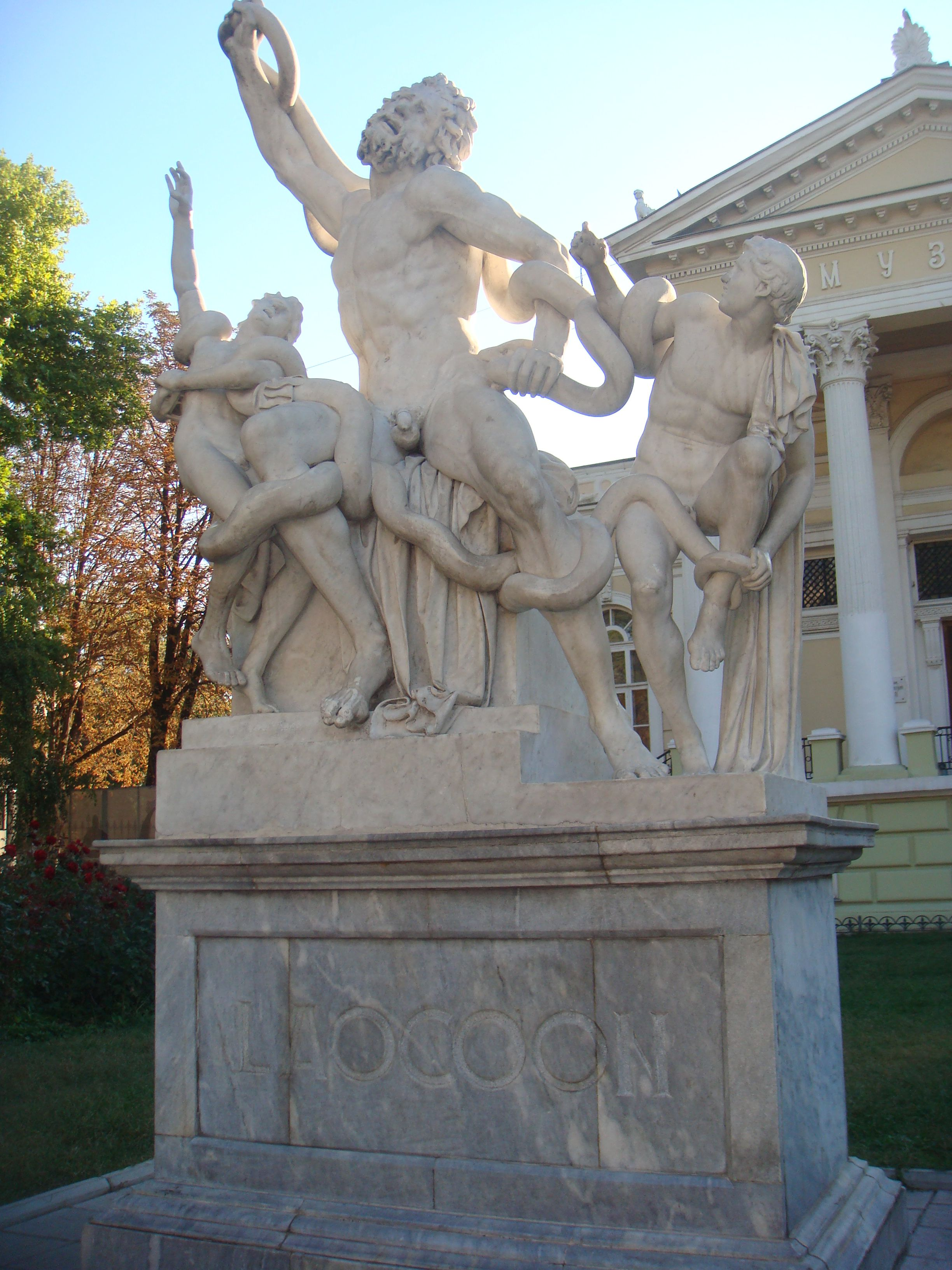 Sculpture of Laocoon and his sons, copy by Paolo Trubetskoy (?) of last quarter of XIX century of famous anciant sculpture by Agesander, Athenodoros & Polydorus, located in Odessa, Ukraine